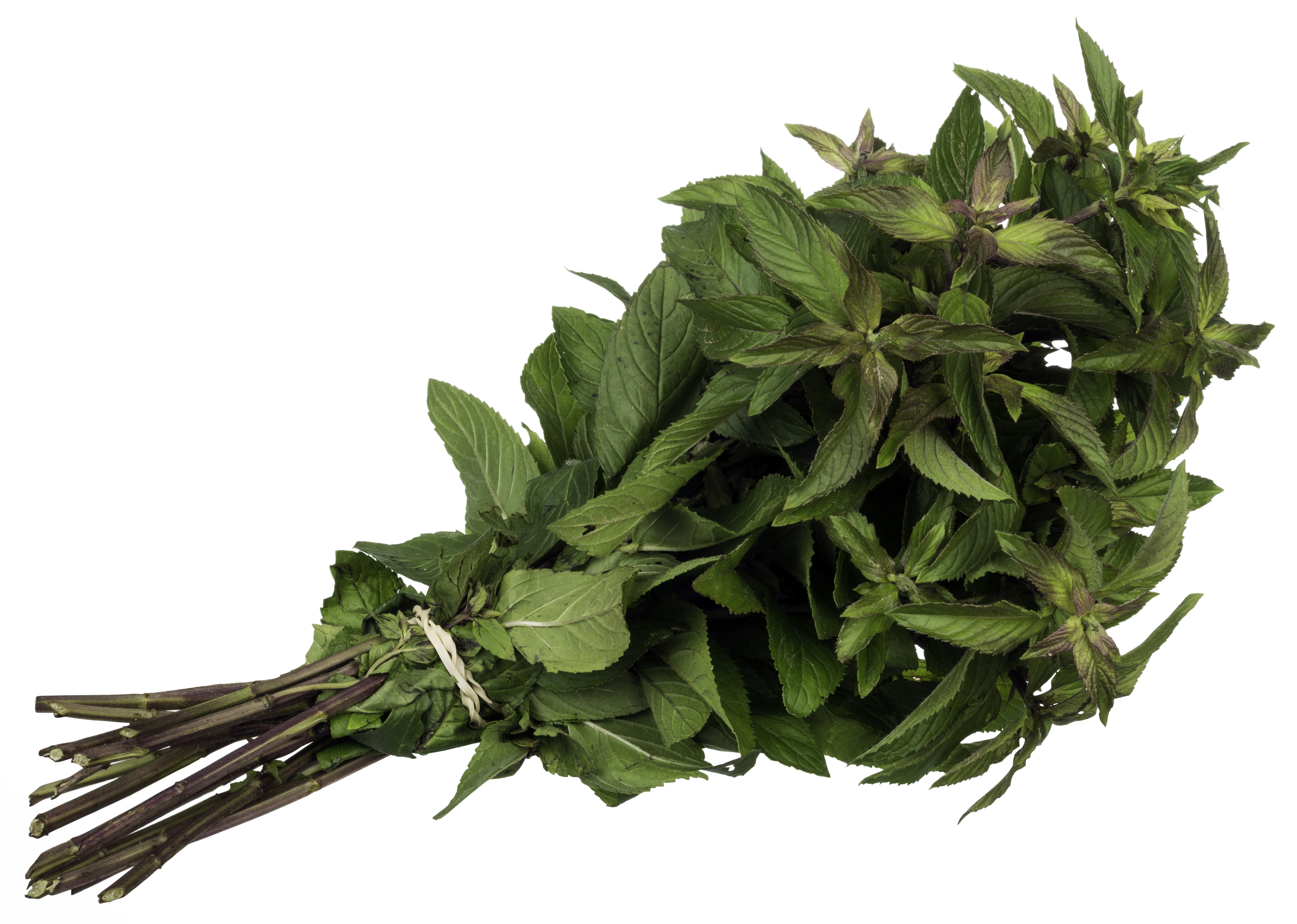 A bundle of chocolate mint (mentha x piperita), from an organic food co-op.